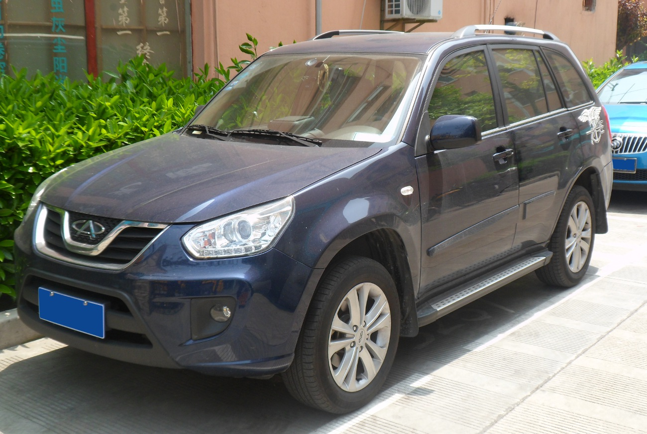 Chery Tiggo facelift II photographed in Shanghai, China.